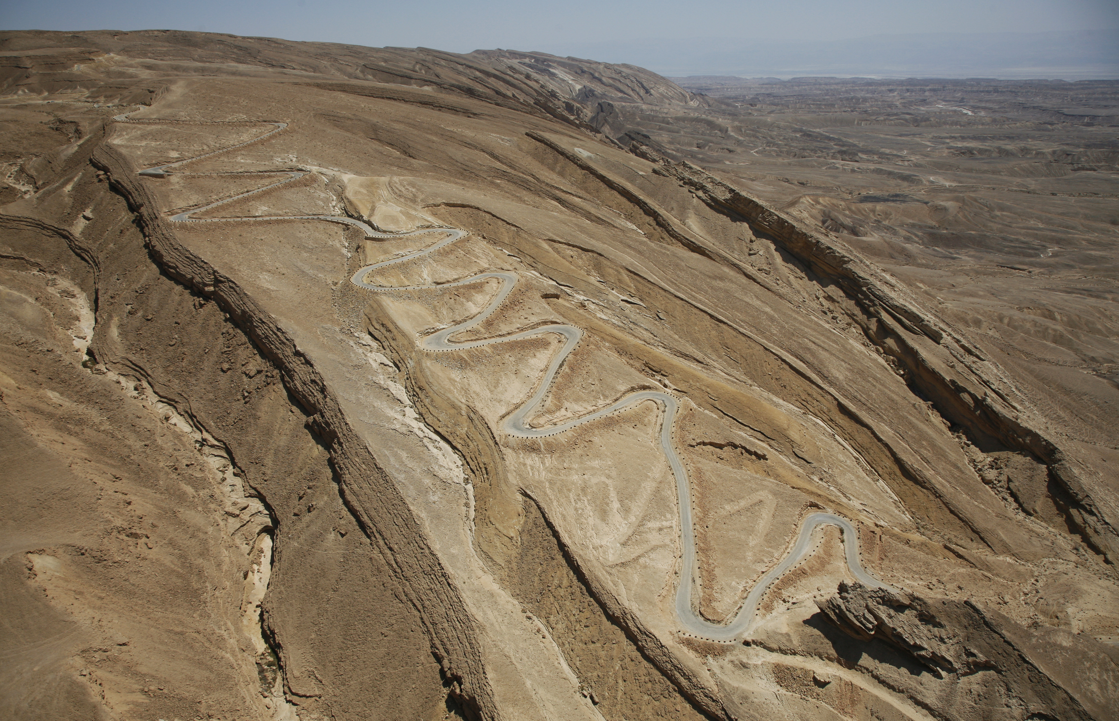 Until 1956, the Scorpion Pass in Israel's Negev Desert was the main road to Eilat. The road was first built by the British in 1927 and uses the British construction style of a reinforced winding path, marked by barrels. Today the road is a heritage site in Israel, set to be preserved by the National Preservation Society. The site has plaques describing the history of the road and the surrounding geography.